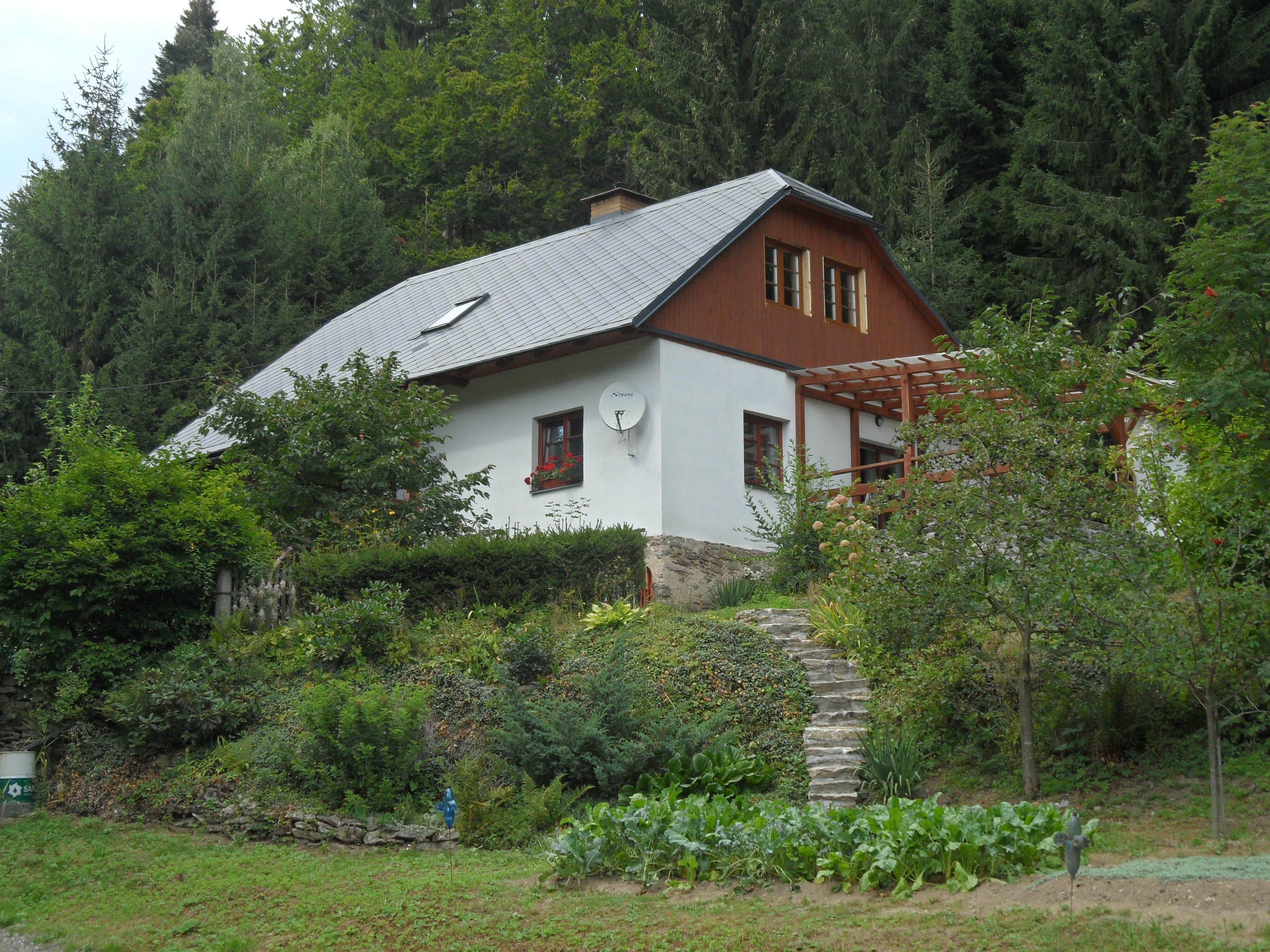 Přemyslov: Cottage. Šumperk District, the Czech Republic